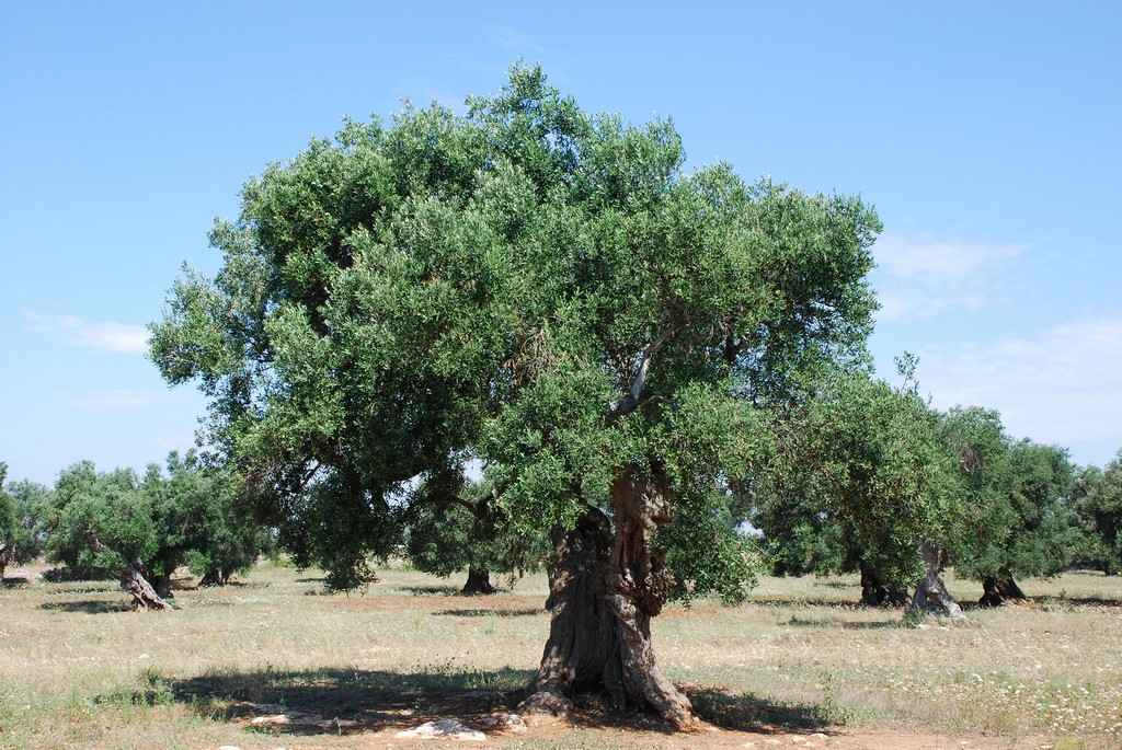 In Puglia region, an moreover in Salento area, olive-tree is a typical plant.